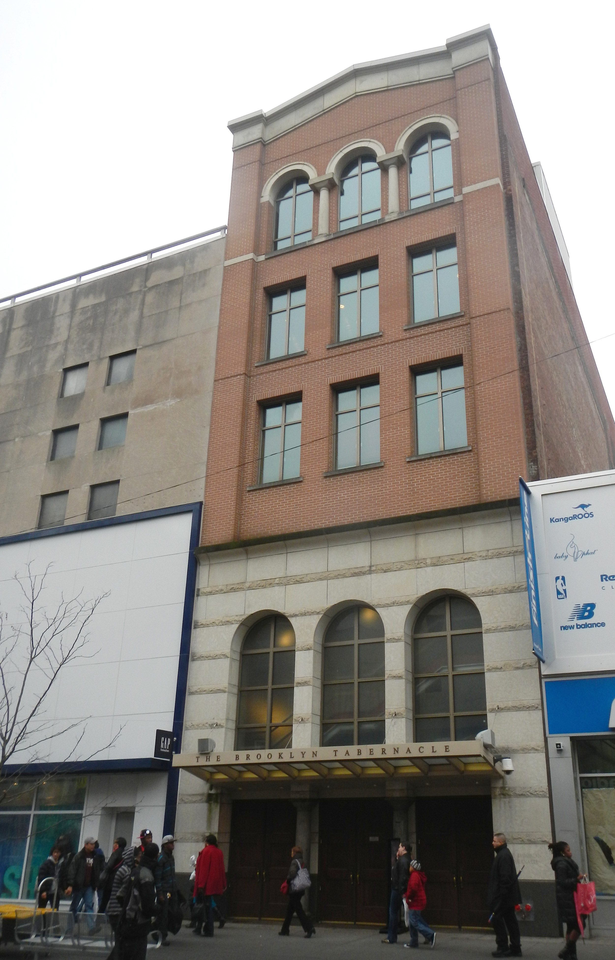 Looking south across Fulton at northern entrance on a cloudy afternoon.